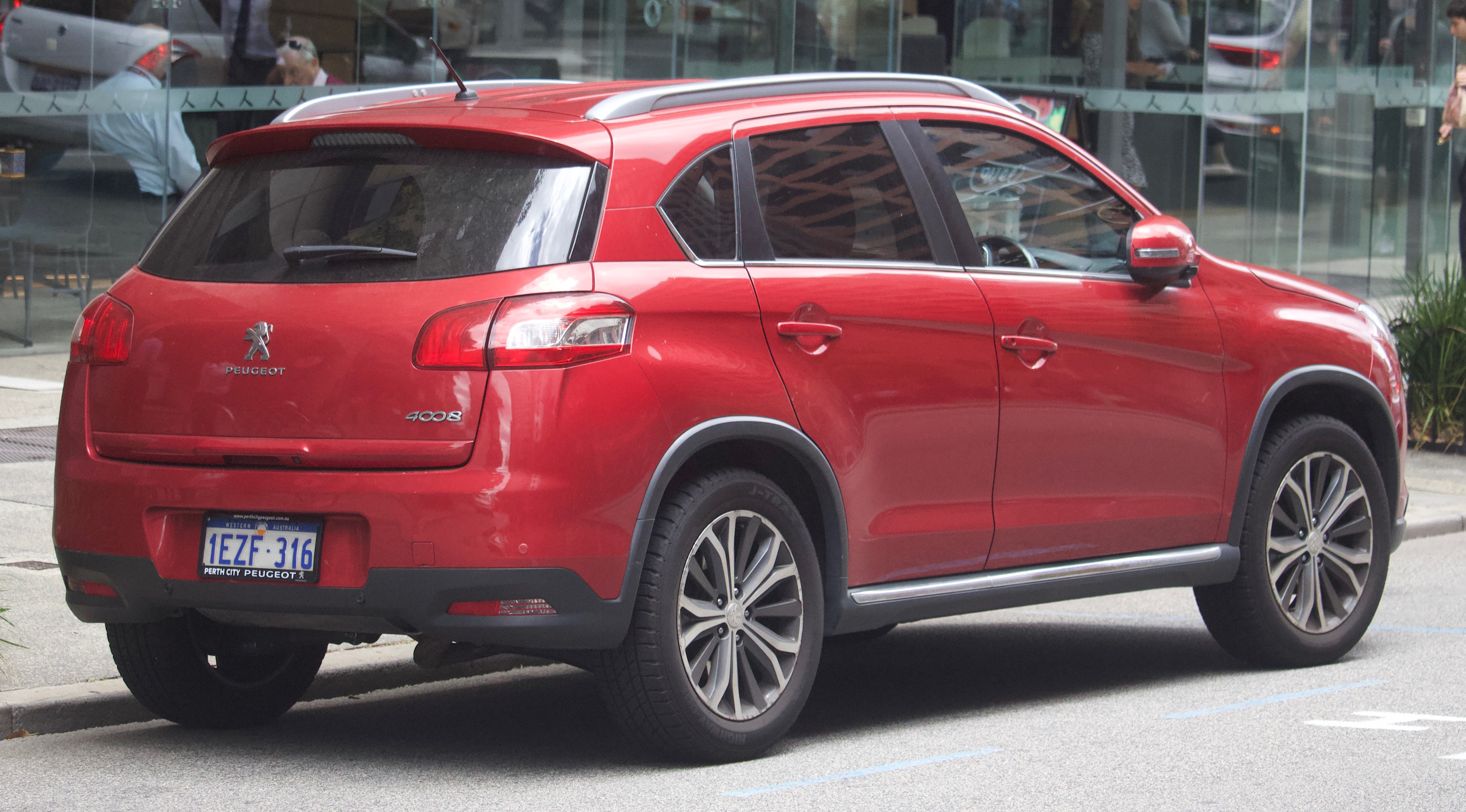 2016 Peugeot 4008 (MY15) Active wagon. Sorry Vauxford, but these are not sold in the UK. Photographed in Perth, Western Australia, Australia.